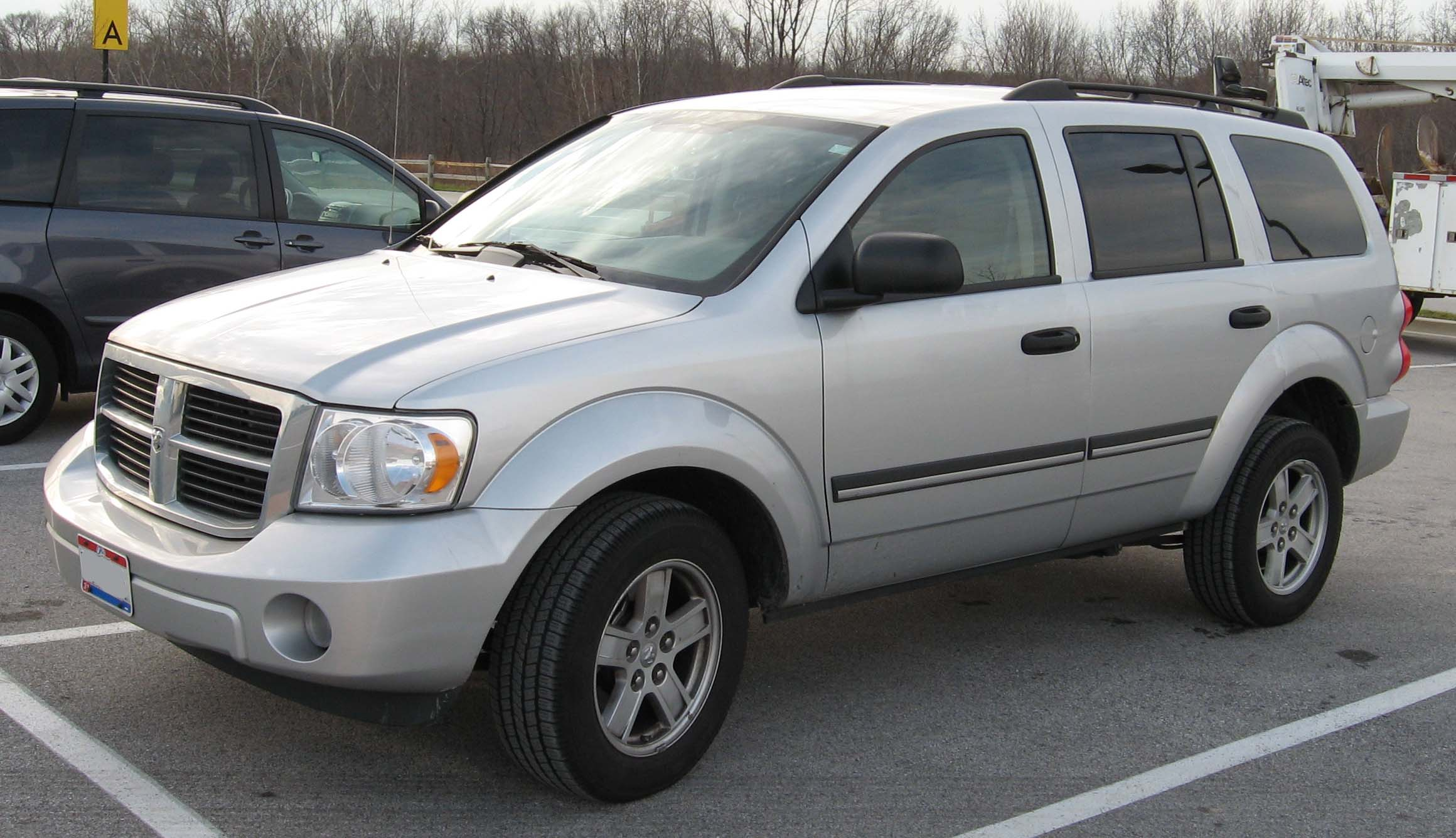 2007 Dodge Durango photographed in USA.